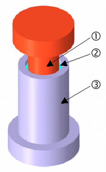 Schematic of a rotational rheometer with coaxial cylinders: 1: internal cylinder; it can rotate or oscillate; 2: gap: it contains the sample from liquid to the boundary of the solid; 3: bucket.